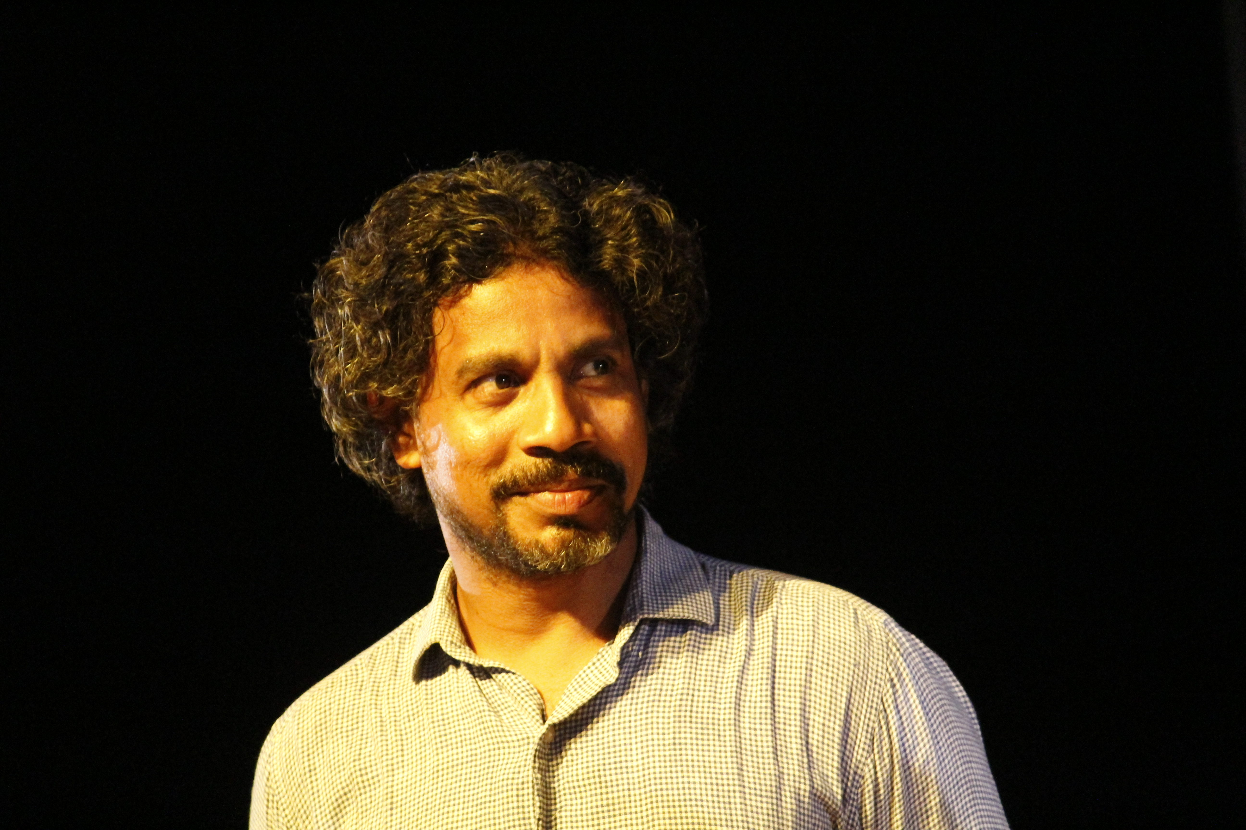 A professional play director